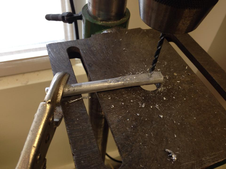 After the drilling of the hole